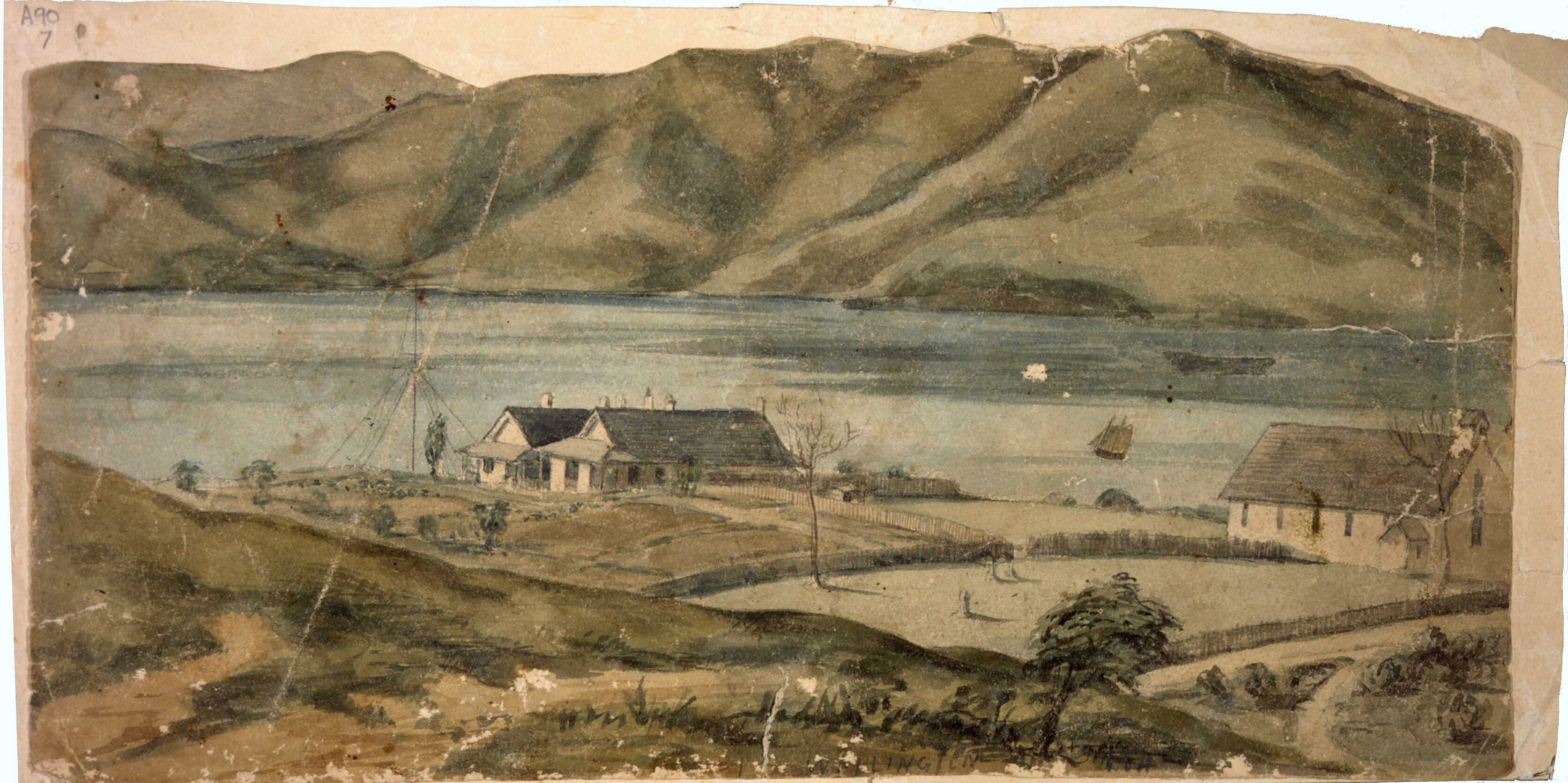 First Government House, Wellington (ca. 1845), drwaing from Robert Park (1812–1870), watercolour, format 130 x 250 mm